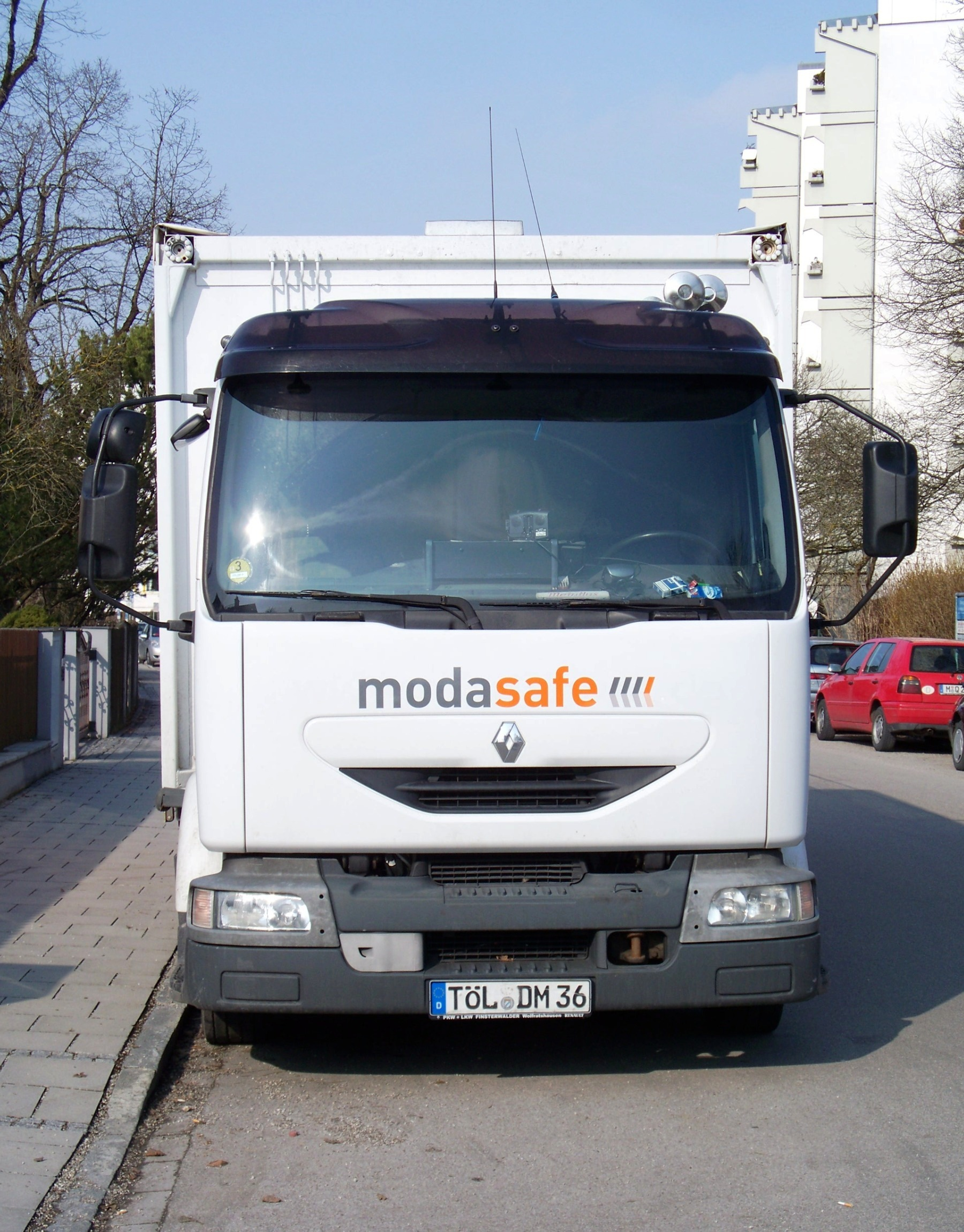 Front view of a Renault truck in Germany.